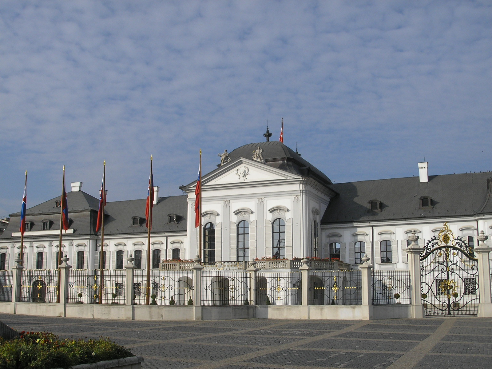 Grassalkovich Palace (Grasalkovicov palác) in Bratislava. Seat of the President of Slovakia.